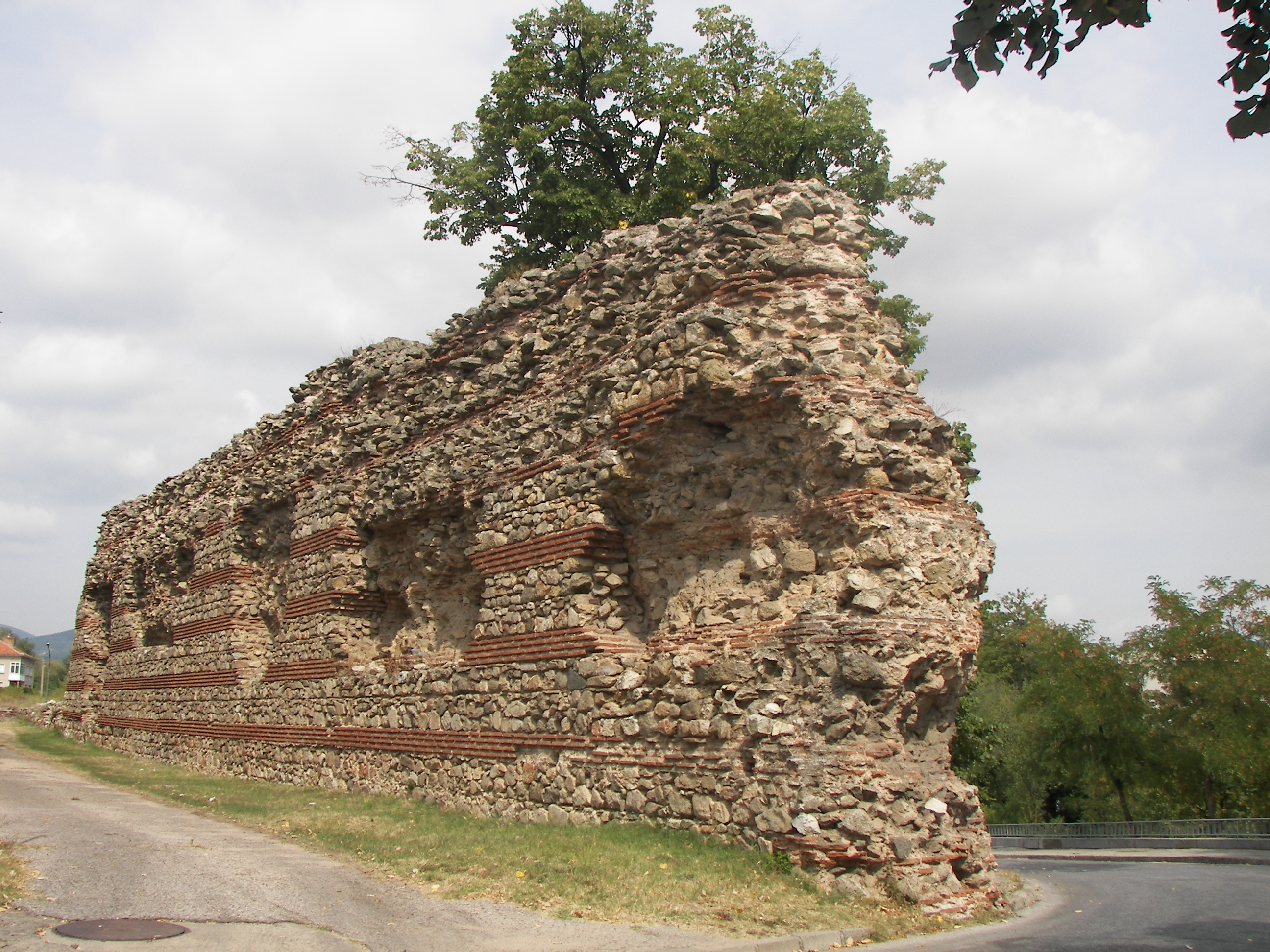 Wall strength